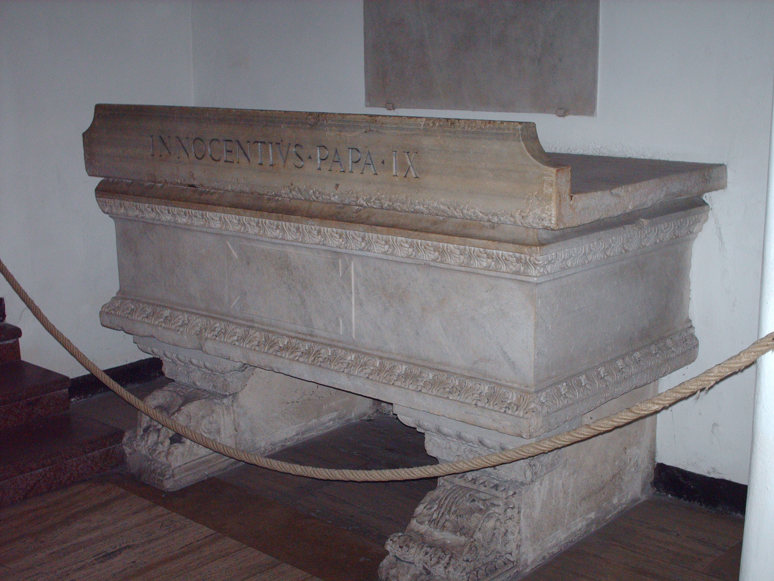 Tomb of pope Innocentius IX, "grotte vaticane", Basilica di San Pietro